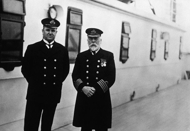 Purser Hugh Walter McElroy and Captain Edward J. Smith aboard the Titanic during the run from Southampton to Queenstown, England.